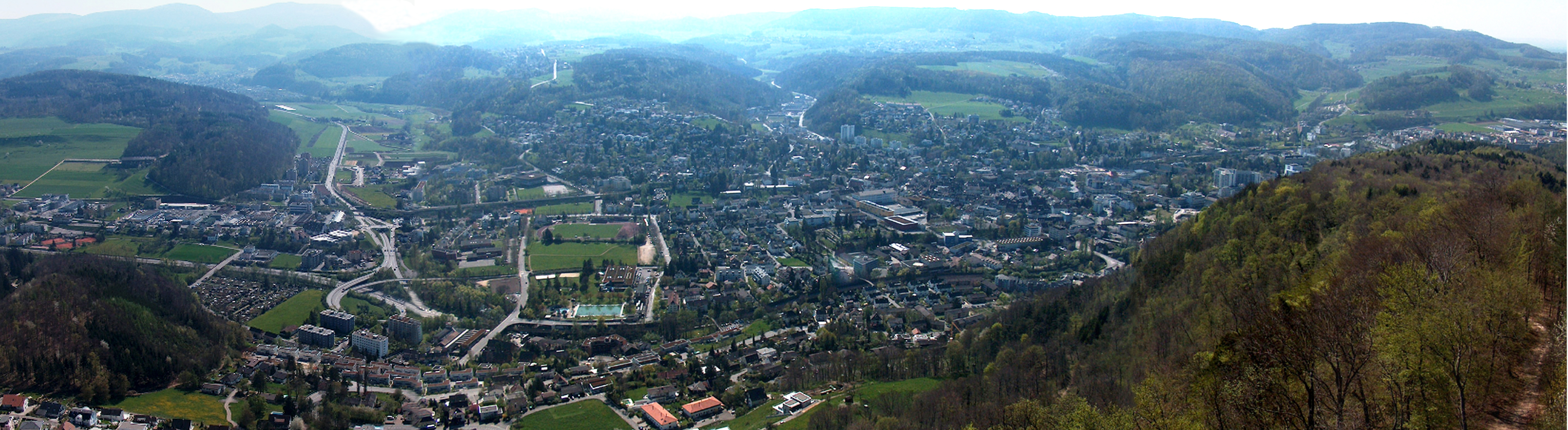 View over Liestal from lookout at the top of Schleifenberg, photomontage